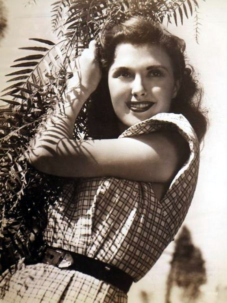 Publicity photo of Beverly Tyler.